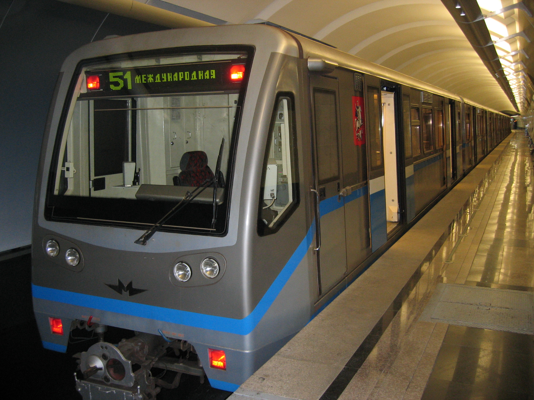 Train 81-740/741, view outside